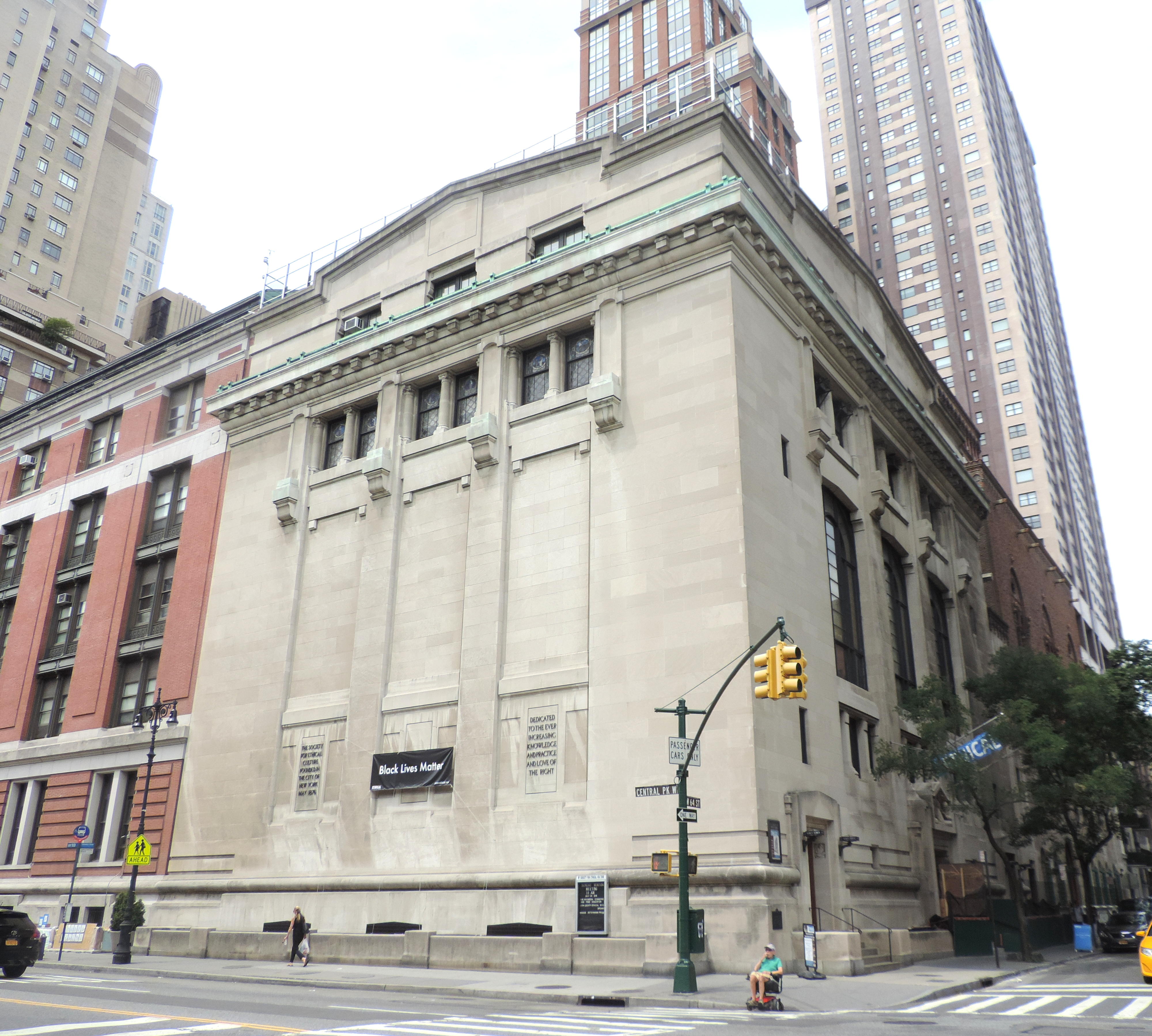 Looking west across CPW and 64th St at Ethical Culture building on a mostly cloudy afternoon